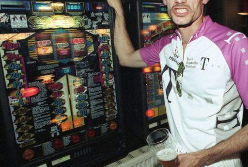 Problem gambling